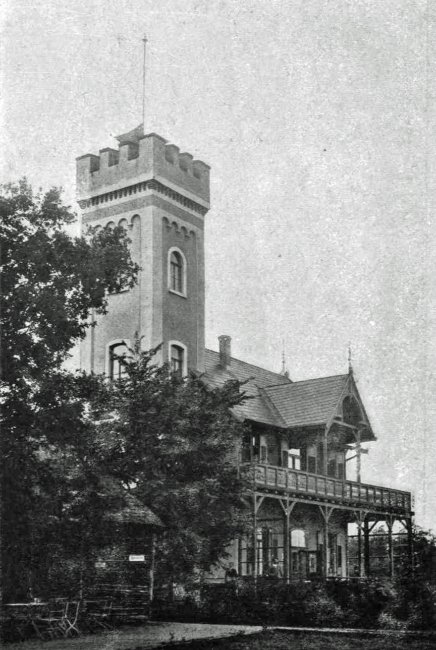 Rittersturz in Koblenz